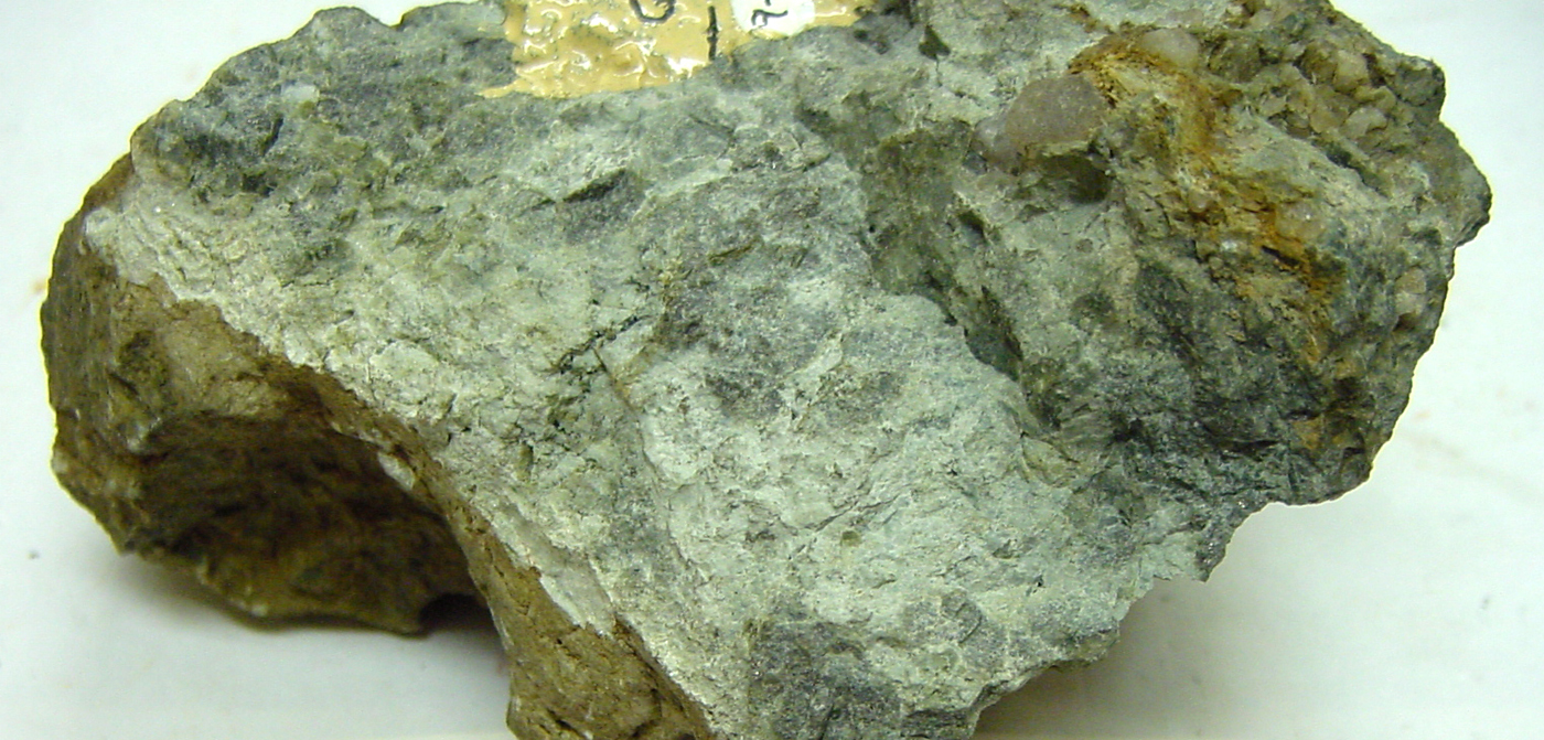 Scorodite. Collected from Gold Hill, Utah. Mineral collection of Brigham Young University Department of Geology, Provo, Utah. Photograph by Andrew Silver. BYU index 9-7001, Fe^3+(AsO_4) x 2(H_2O).